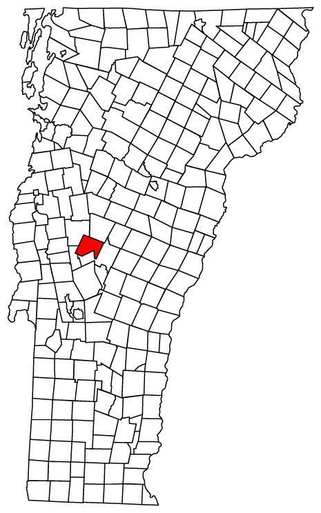 Description: Map of Vermont towns with Hancock highlighted Source: Map created by Jared C. Benedict on 26 March 2004. Copyright: © Jared C. Benedict.